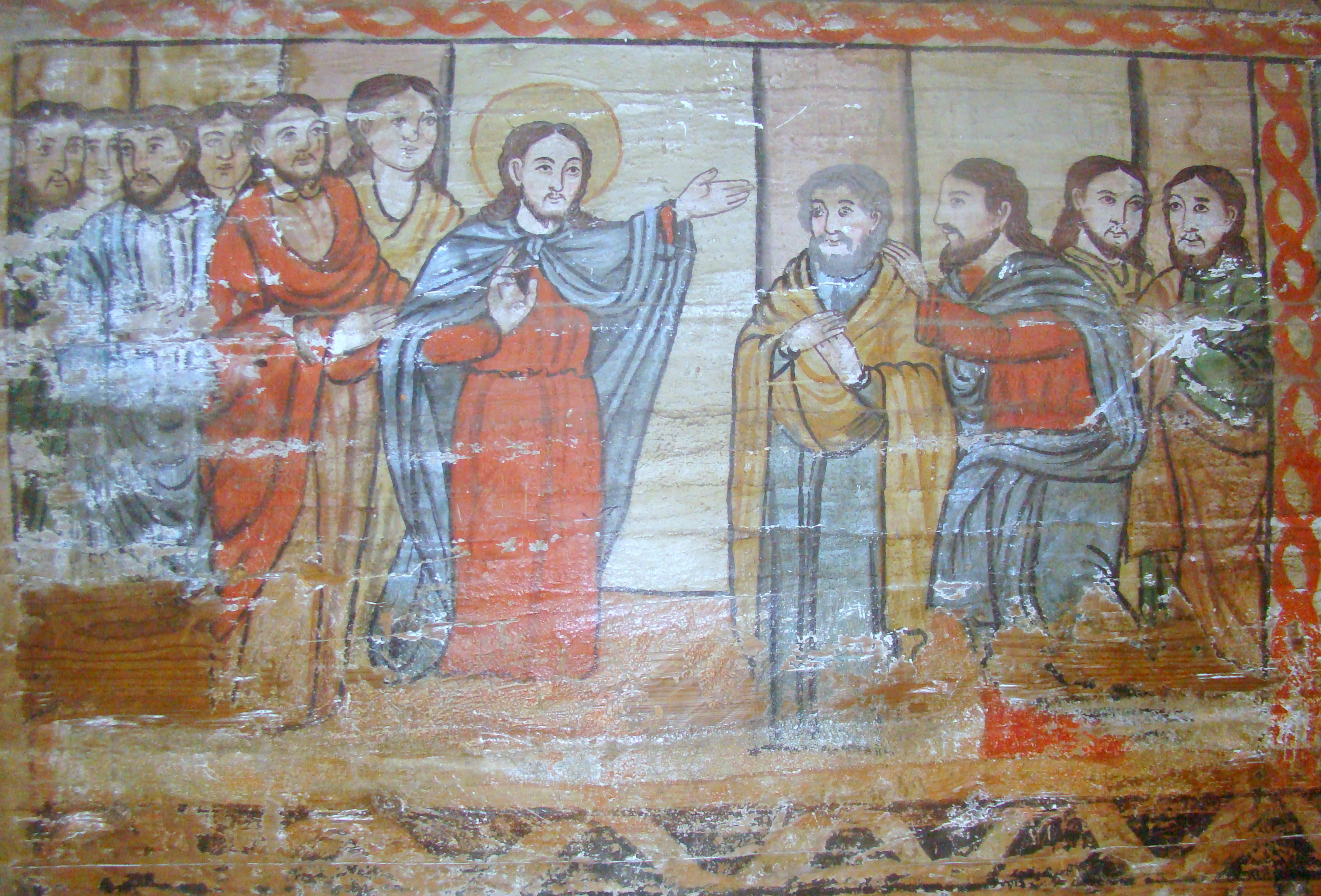 Wooden church in Săcalu de Pădure, Mureș countyRomână: Biserica de lemn din Săcalu de Pădure, județul Mureș